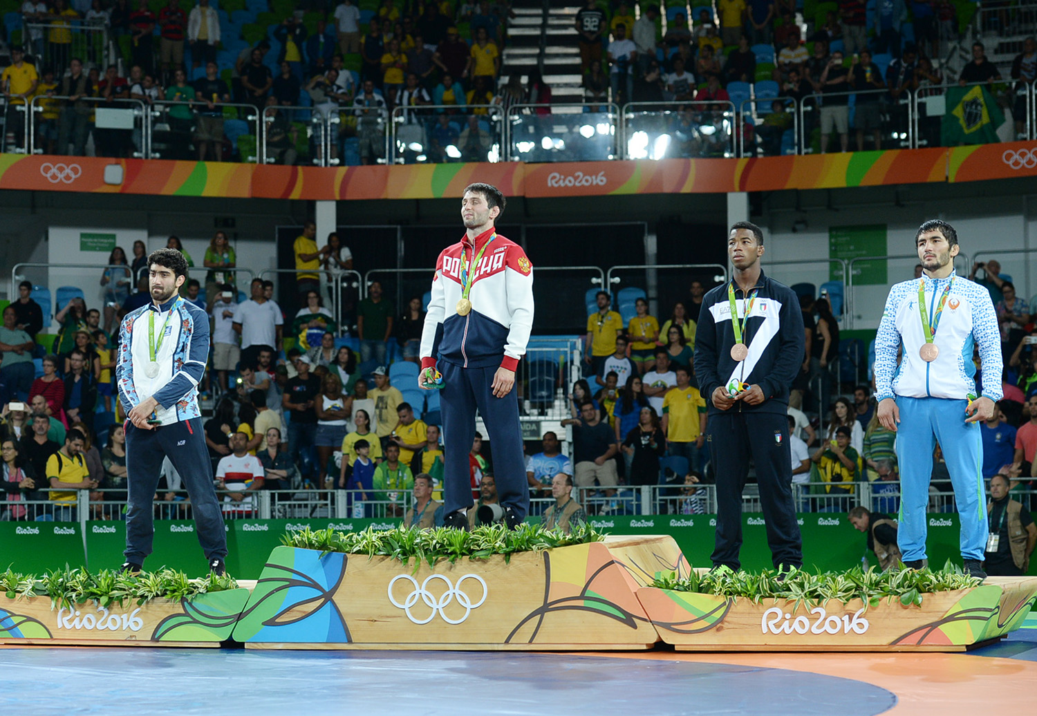 2016 Summer Olympics, Men's Freestyle Wrestling 65 kg awarding ceremony